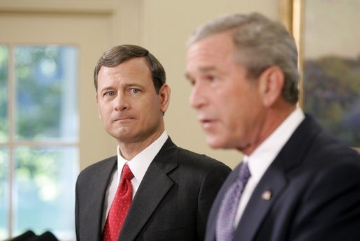 President George W. Bush announces from the Oval Office the nomination of Supreme Court justice nominee John Roberts as his nominee as Chief Justice on Monday morning September 5, 2005.